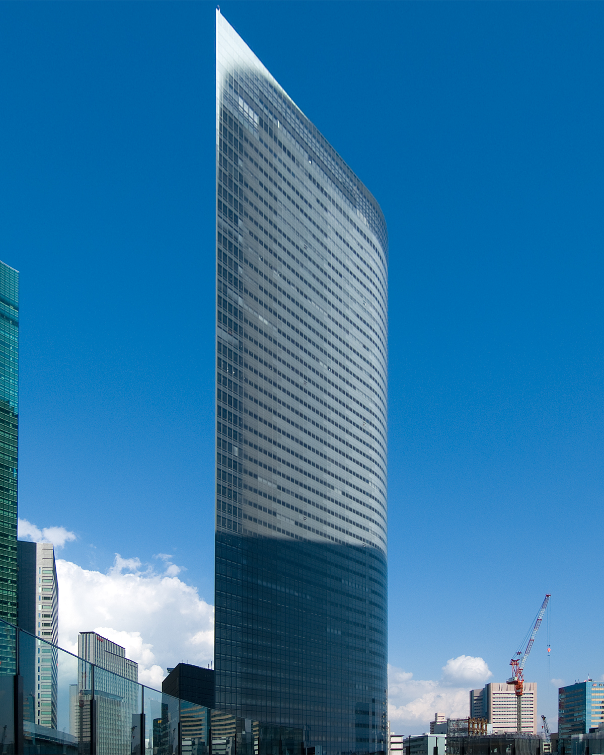 dentsu Head Office, at Shiodome Tokyo Japan, Design by Jean Nouvel and Obayashi Corporation and The Jerde Partnership International Inc in 2002.